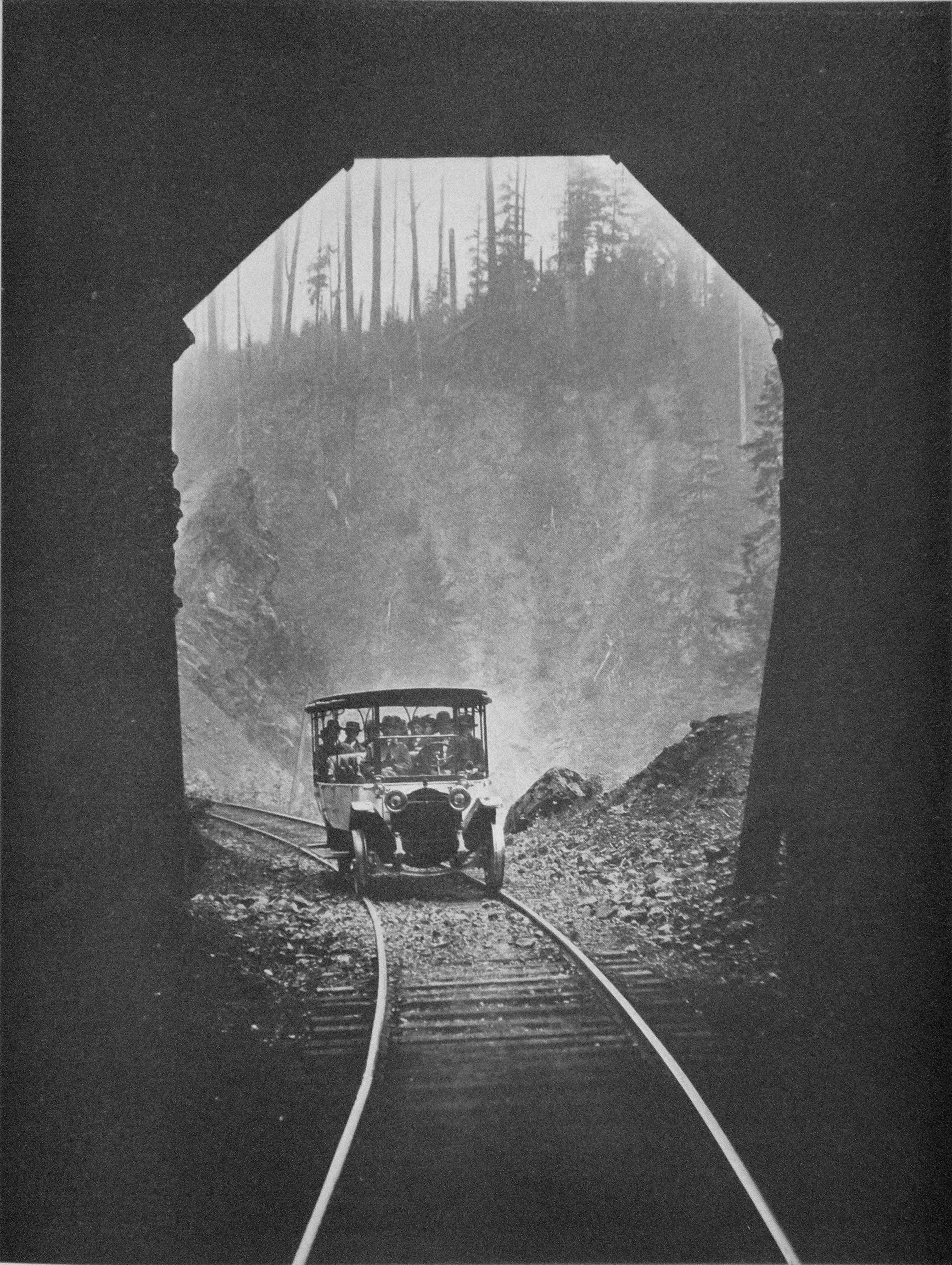 Traveling to Monte Cristo, Washington in 1916. Monte Cristo, a mining district in east Snohomish County is now pretty much abandoned: the daunting route to get there was a factor in its demise. In this image, a motorcar fitted out to run on rail tracks enters a tunnel.